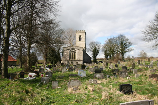 St.John's church, Throapham. Deserted & boarded up as protection from vandals and the elements, St.John's has a Norman south door and early 13th century arcades inside. Surrounded by pit villages and industrial estates, it's hard to imagine a bright future for such a grand building !